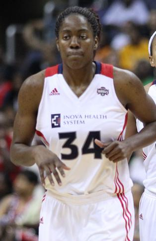 Victoria Dunlap of the Washington Mystics (at time of photo)